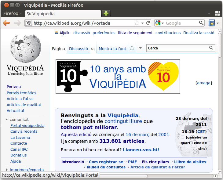 Mozilla Firefox 4.0 showing Catalan Wikipedia.